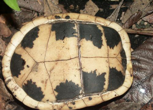 Cuora galbinifrons bourreti female by Torsten Blanck The copyright holder of this file allows anyone to use it for any purpose, provided that the copyright holder is properly attributed. Redistribution, derivative work, commercial use, and all other use is permitted.